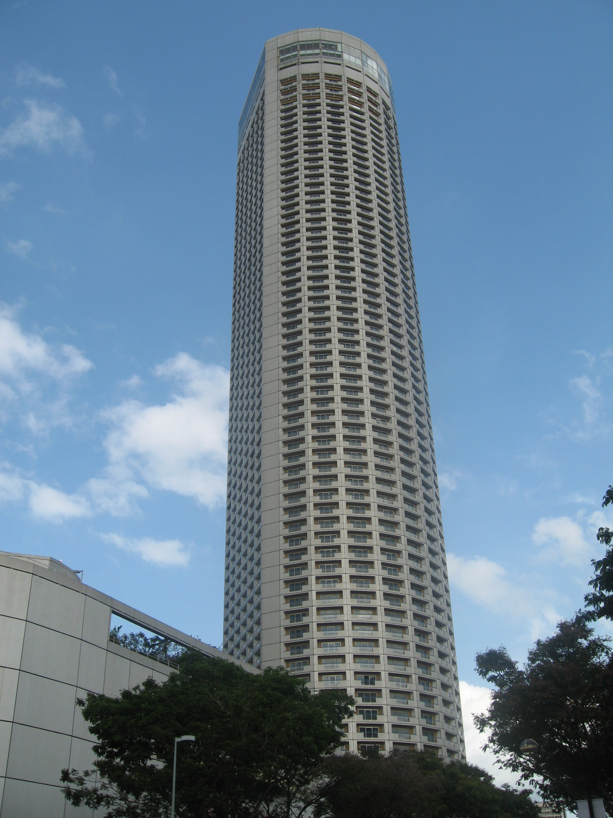 Swissotel The Stamford.